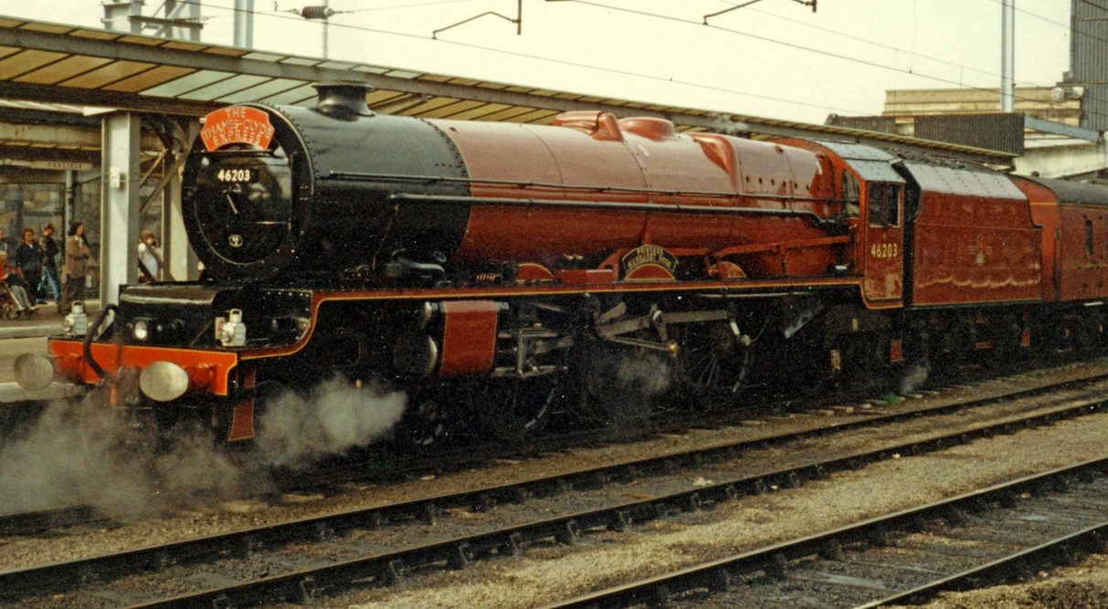 LMS "Princess Royal" Class locomotive 46203 "Princess Margaret Rose" at Carlisle Citadel station on a special train over the Settle & Carlisle route to Leeds and Derby.